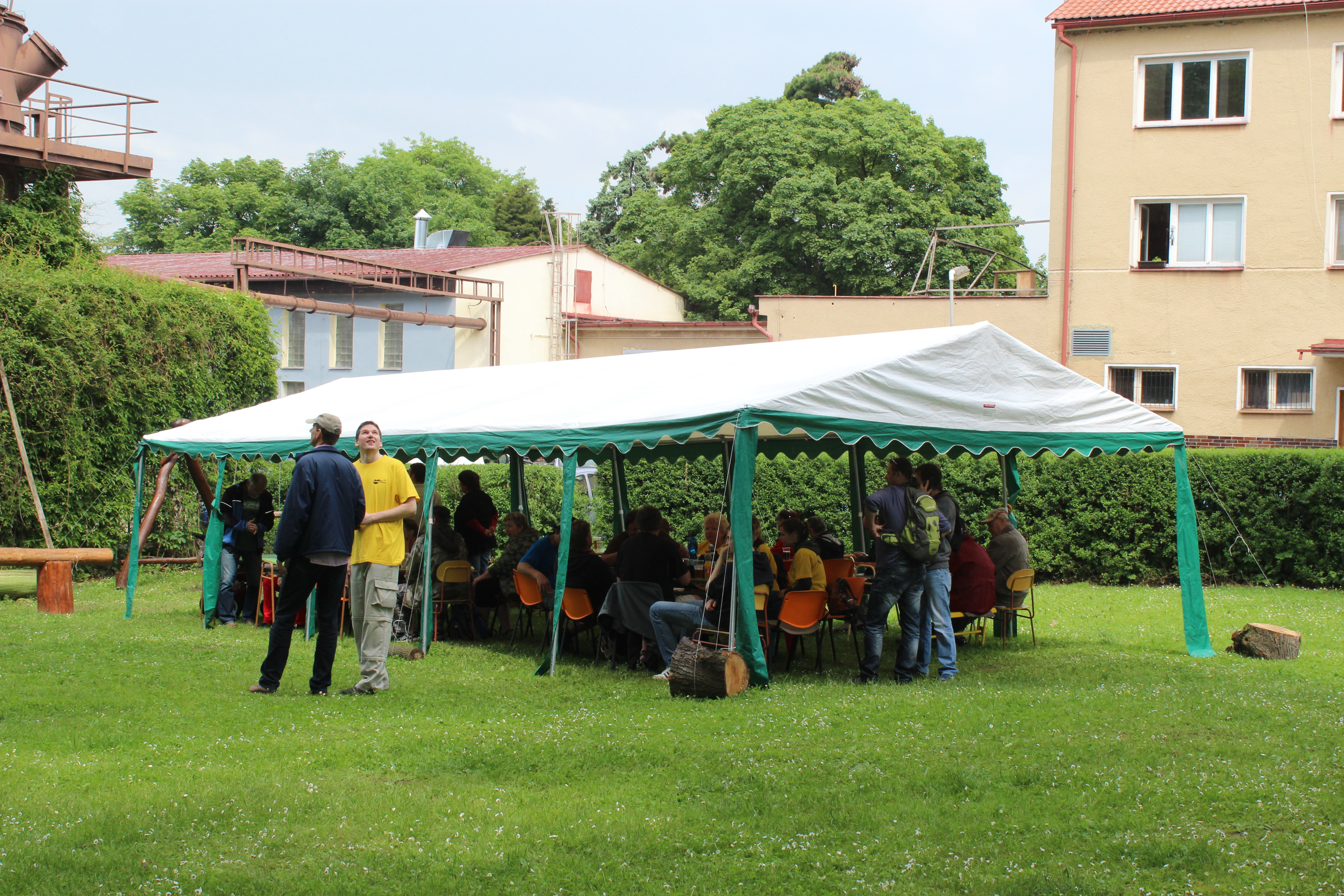 Liteňfest - Folk & Country Festival in Liteň (District Beroun)